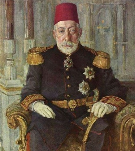 Mehmed V of Ottoman Empire